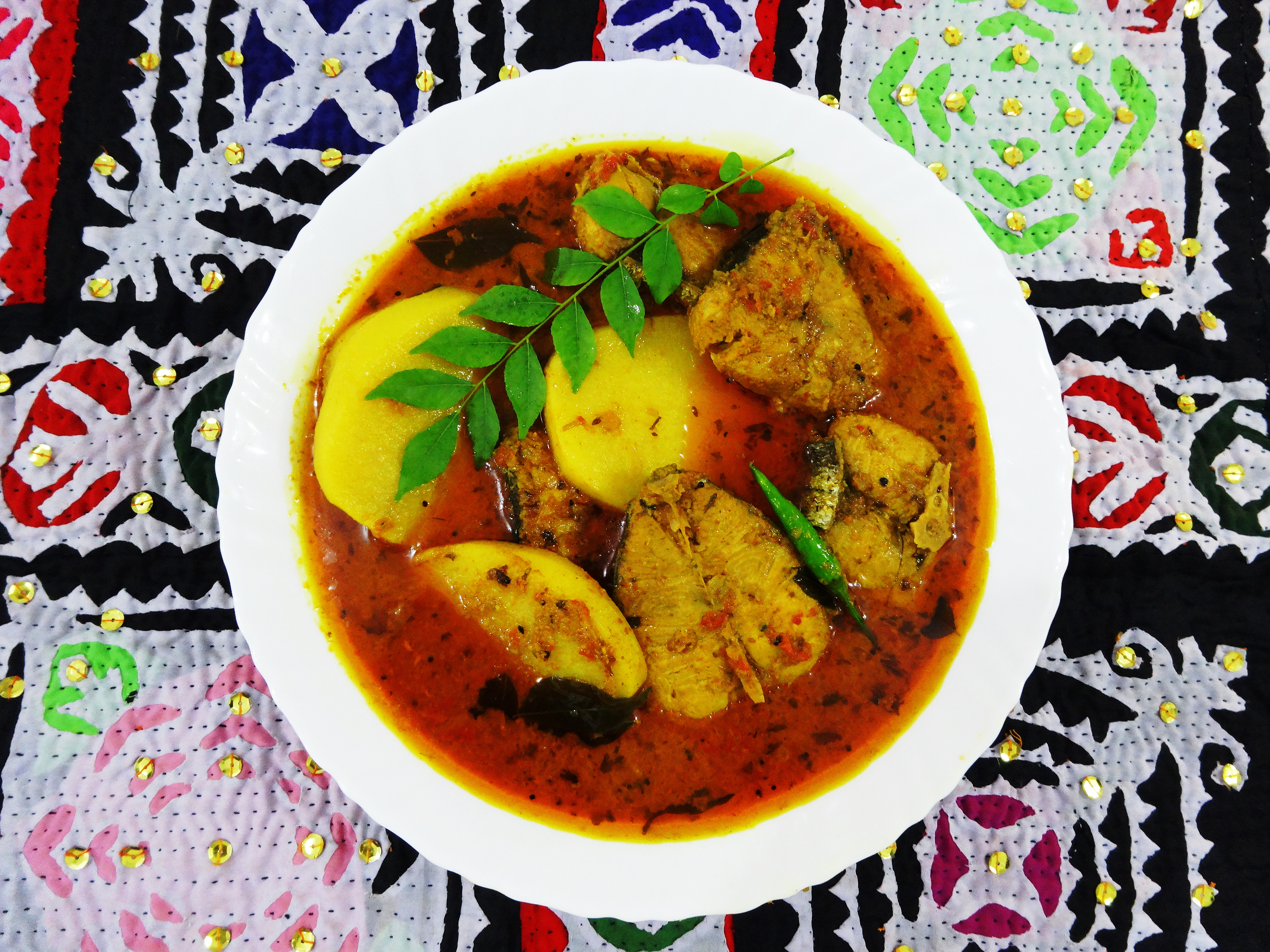 سندھی فش کری